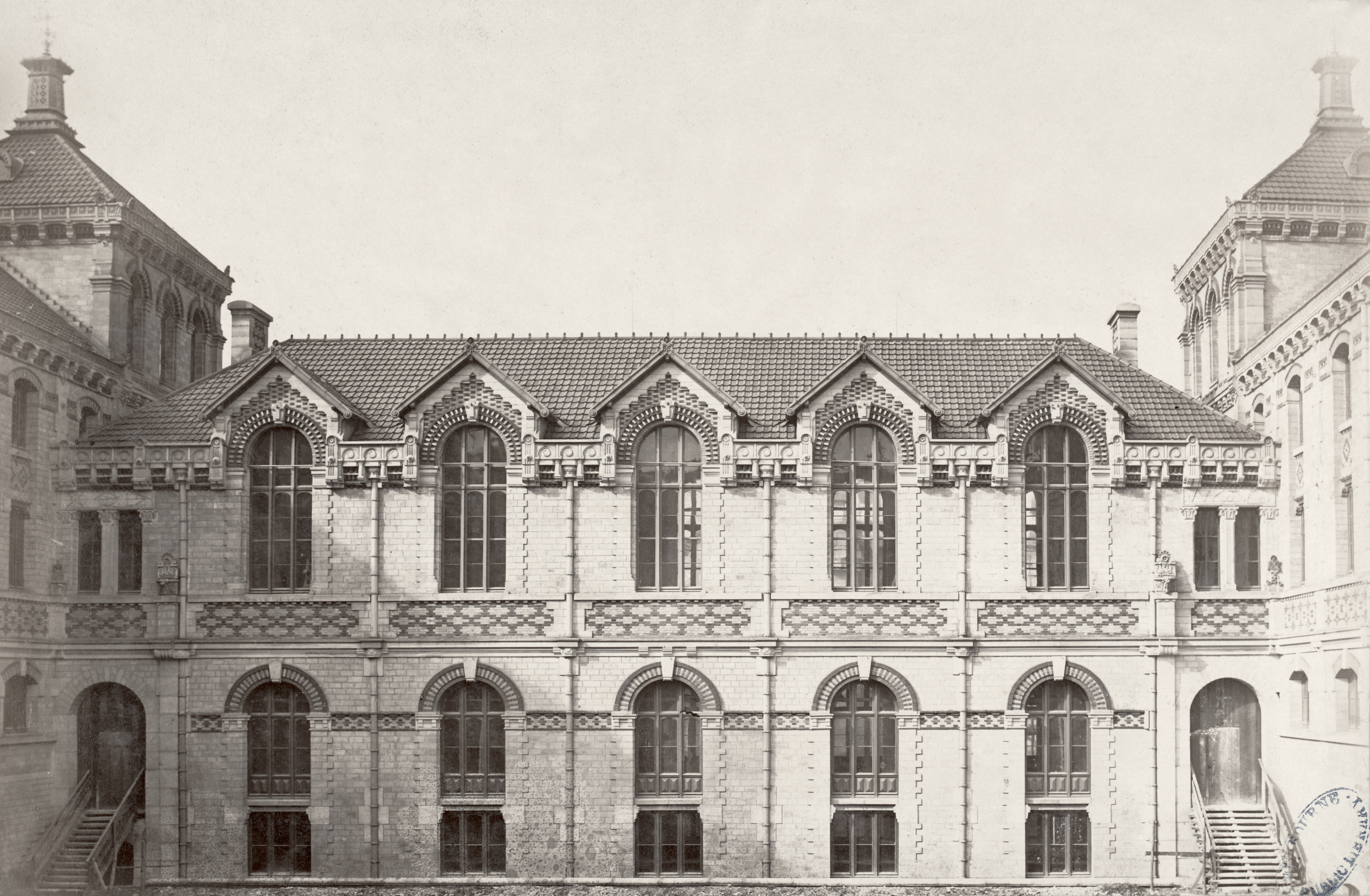 Looking across quadrangle towards double storey wing of a building arched windows on ground and upper level, bichromic brick between floors, pediments over upper storey windows